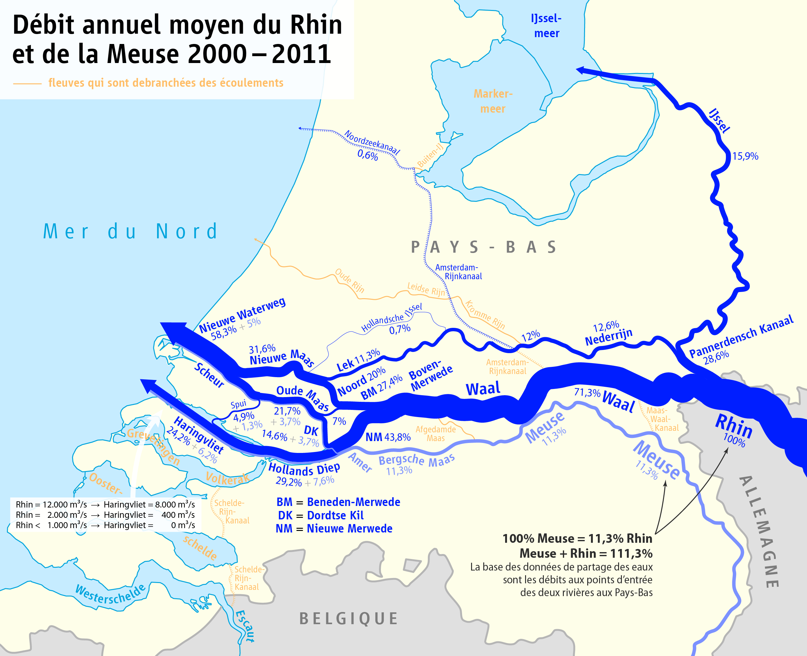 Map of the partition of Rhine and Meuse water among the various branches of their delta 2000-2011